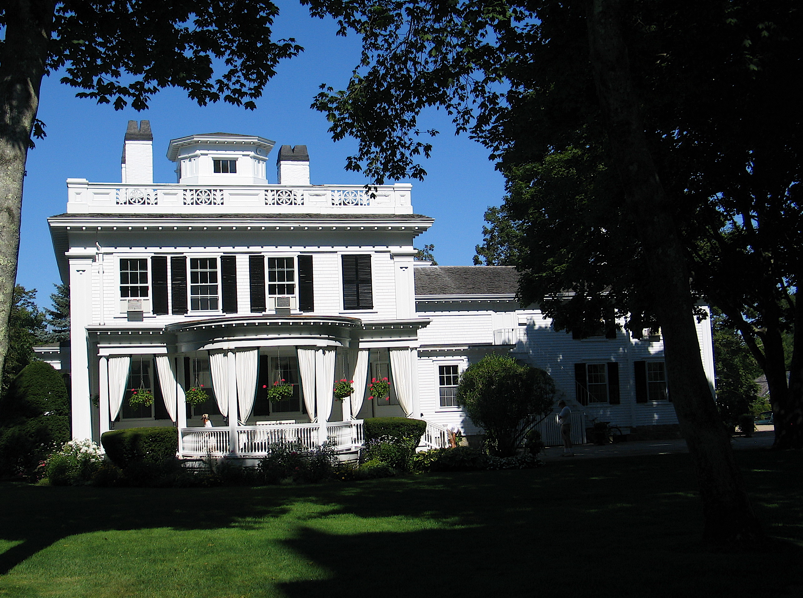 Edgartown Village Historic District